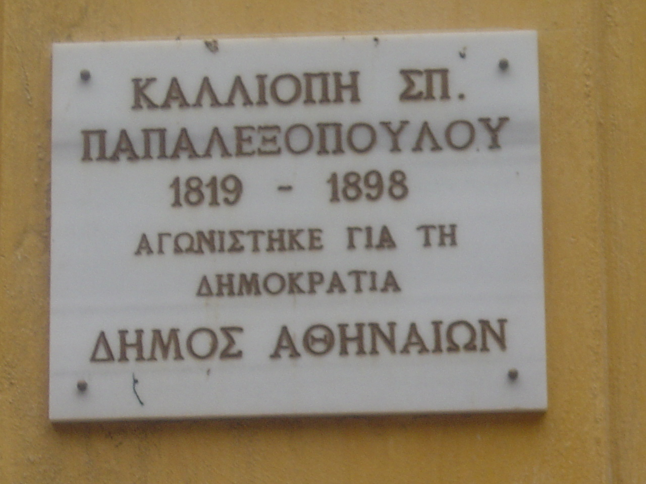 Kalliopi Papalexopoulou memorial plaque outside Paparigopoulou mansion in Plaka, Athens, Greece